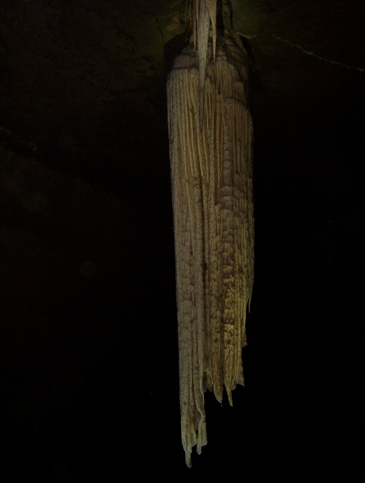 Stalactite over 20ft long in Doolin Cave, Ireland. This is one of the longest stalactites viewable by the general public